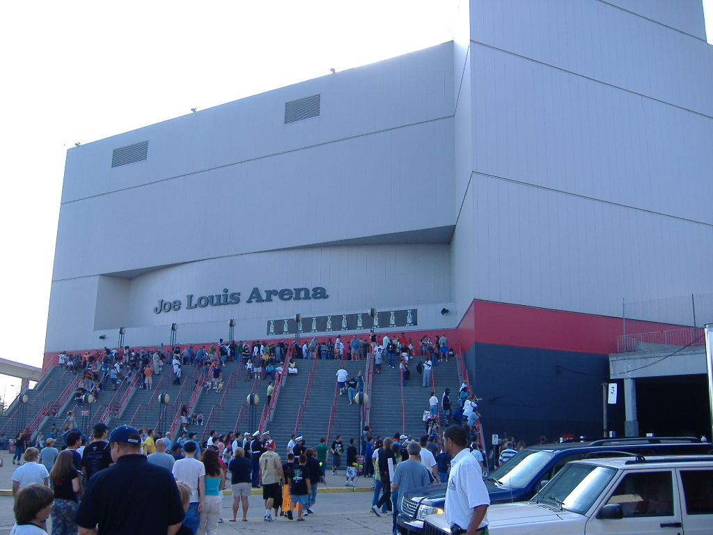 Picture of JLA entrance steps / doors closest to the river front. Category:Images of Detroit, Michigan